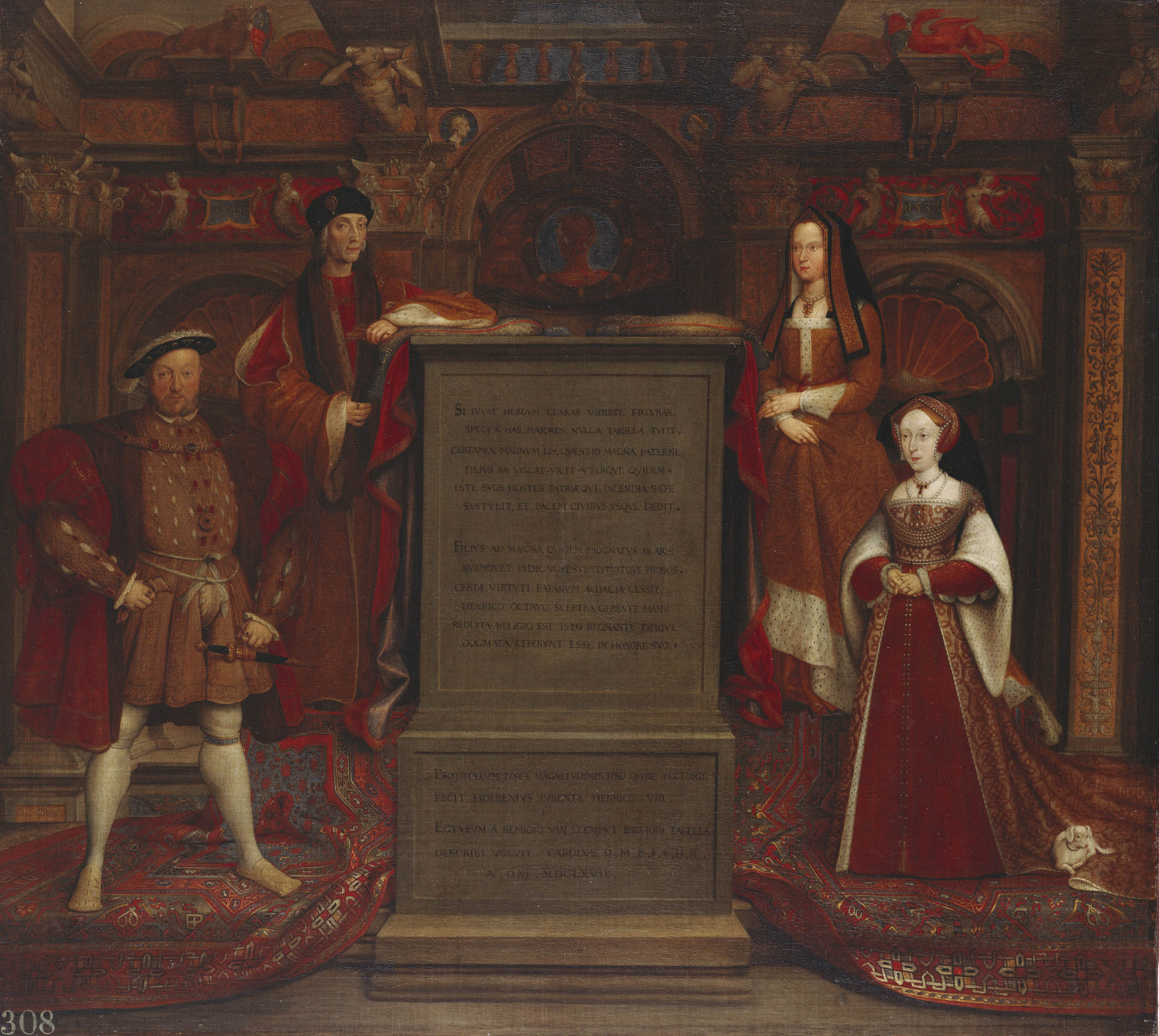 Remigius van Leemput, after Hans Holbein the Younger, Whitehall Mural, 1667, oil on canvas, 88.9 × 99.2 cm (Royal Collection, RCIN 405750).